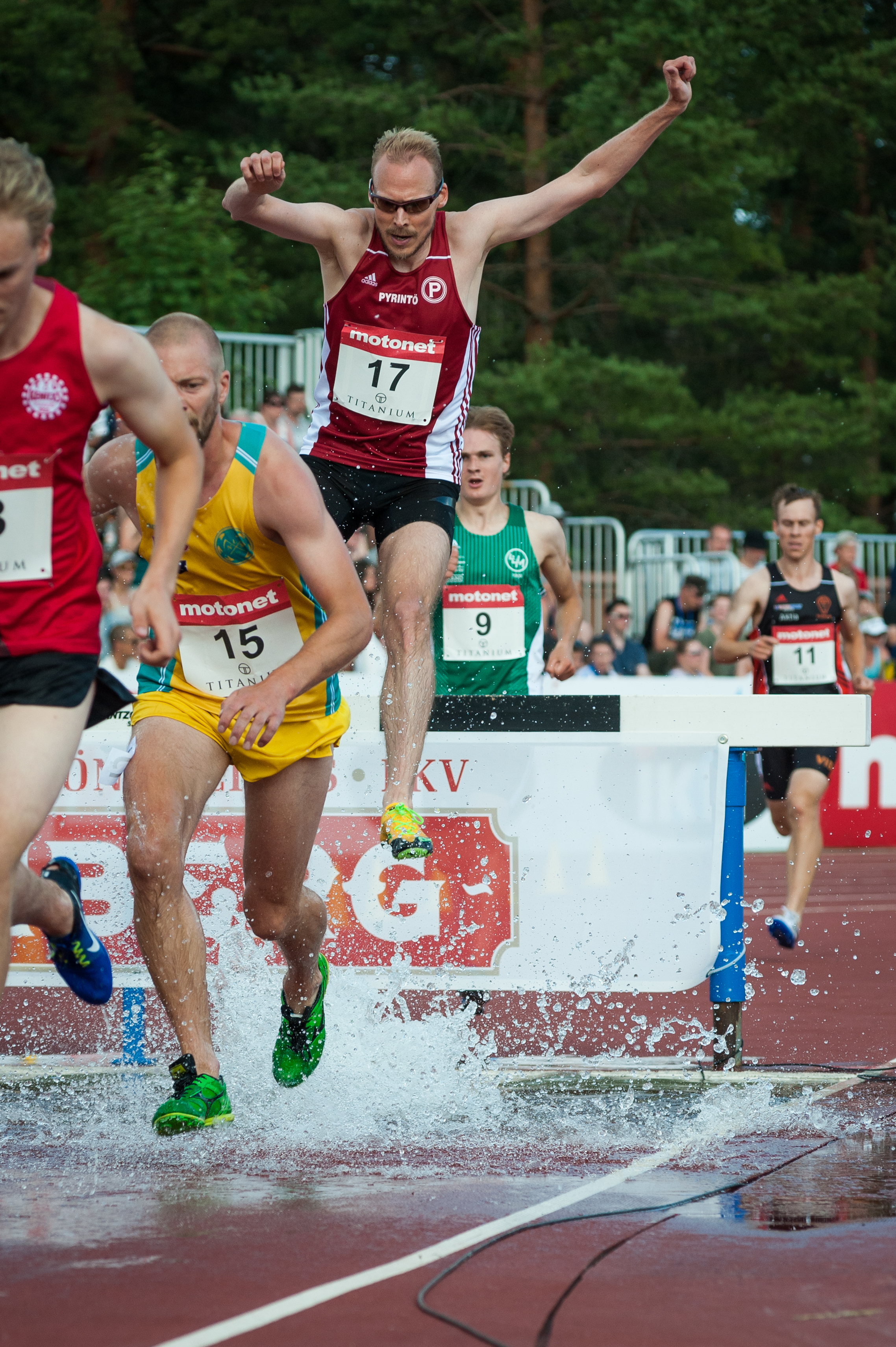 Men's 3000 m steeplechase competition at the 2018 Kalevan Kisat, the Finnish championships in athletics, in Jyväskylä, Finland. Teppo Syrjälä (17).